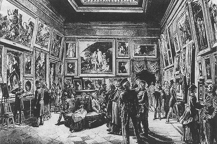 Eastern Hall of the Berlin Gemäldegalerie's South Wing with works by the Dutch and Flemish school of the 17th century